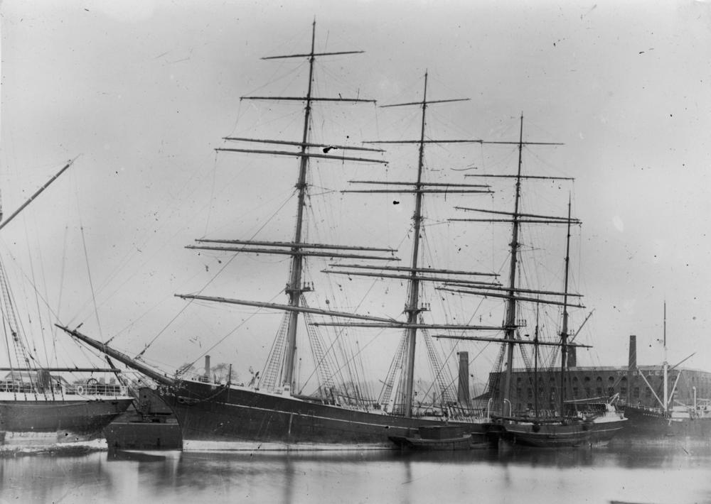 Primrose Hill (Ship) Post card of Primrose Hill (Ship) of Liverpool at Bristol. (Description supplied with photograph).